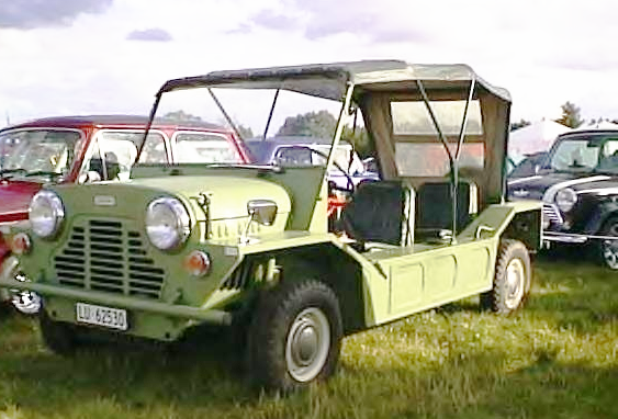 A fairly original British Moke.